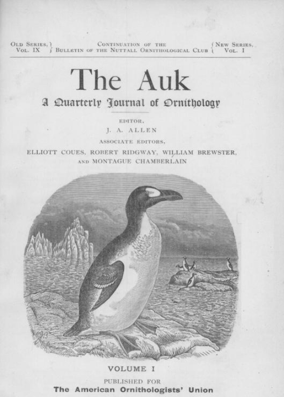 The Auk First Front of the first Volume